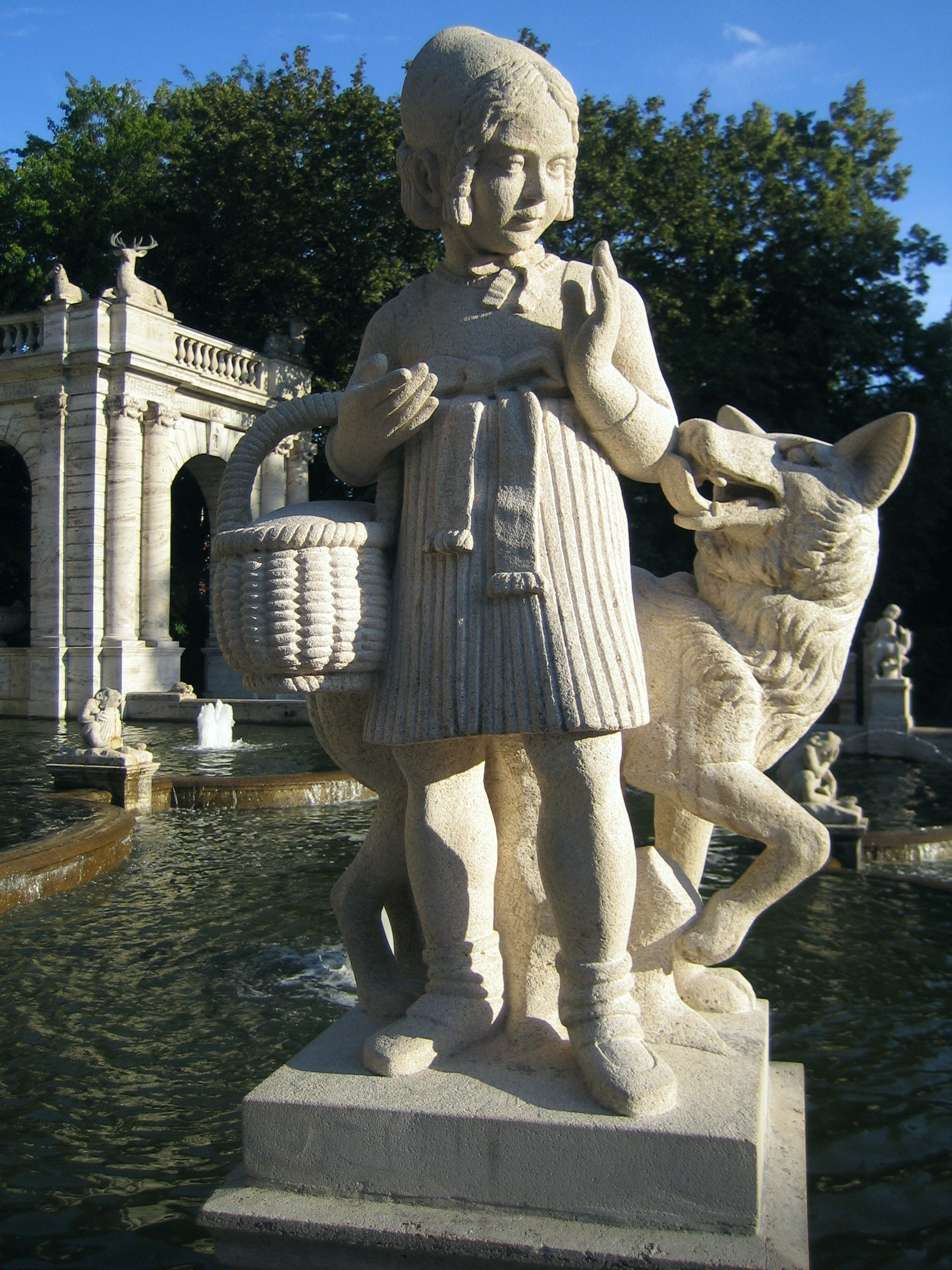 Friedrichshain locality of Berlin: Märchenbrunnen (fairy tale fountain) in the Volkspark Friedrichshain park, sculpture on the Brothers Grimm fairy tale «Little Red Riding Hood» by Ignatius Taschner.